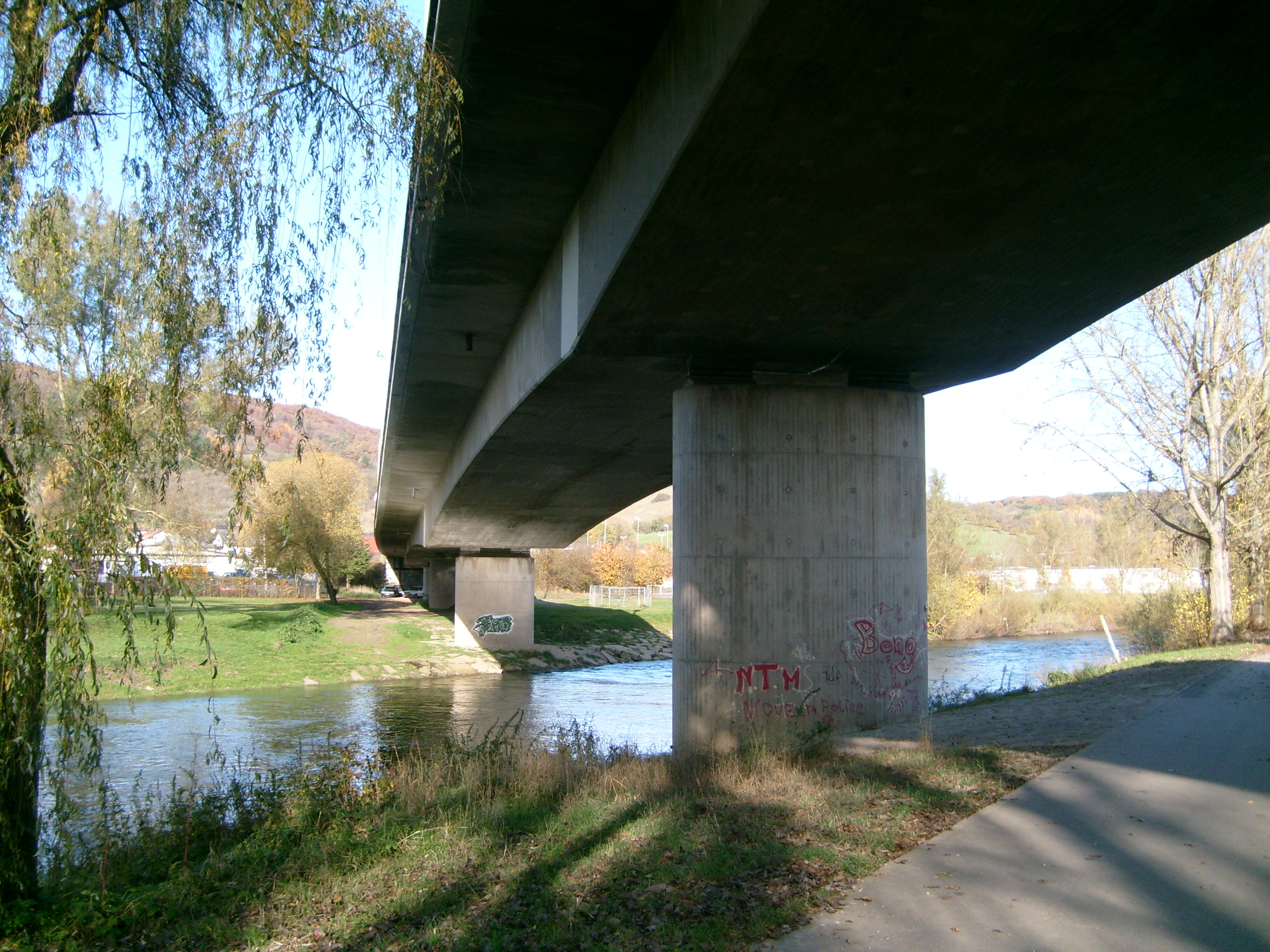 The Bridge accross the Sure between Echternach (Luxembourg) and Echternacherbrück (Germany).